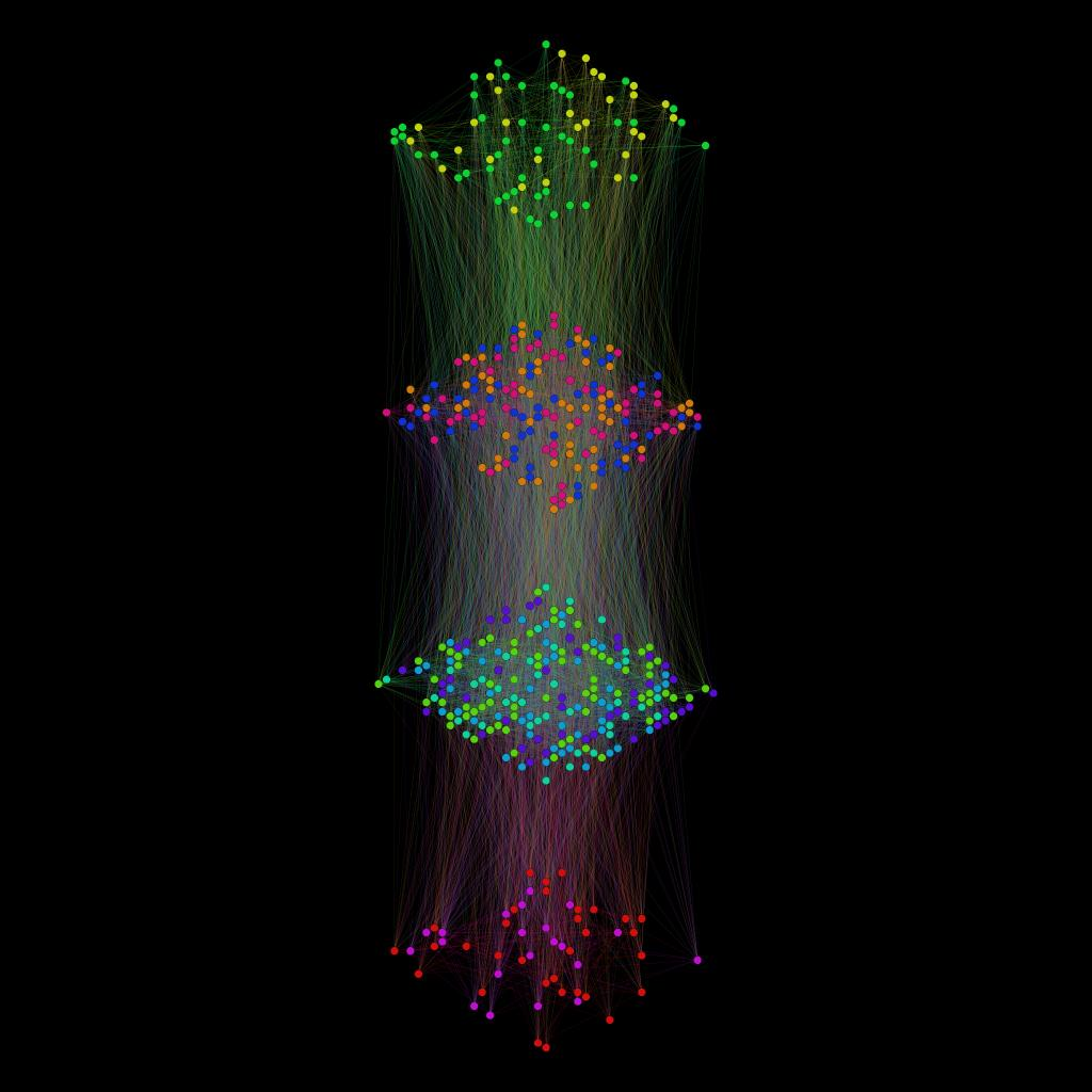 Gephi isometric layout